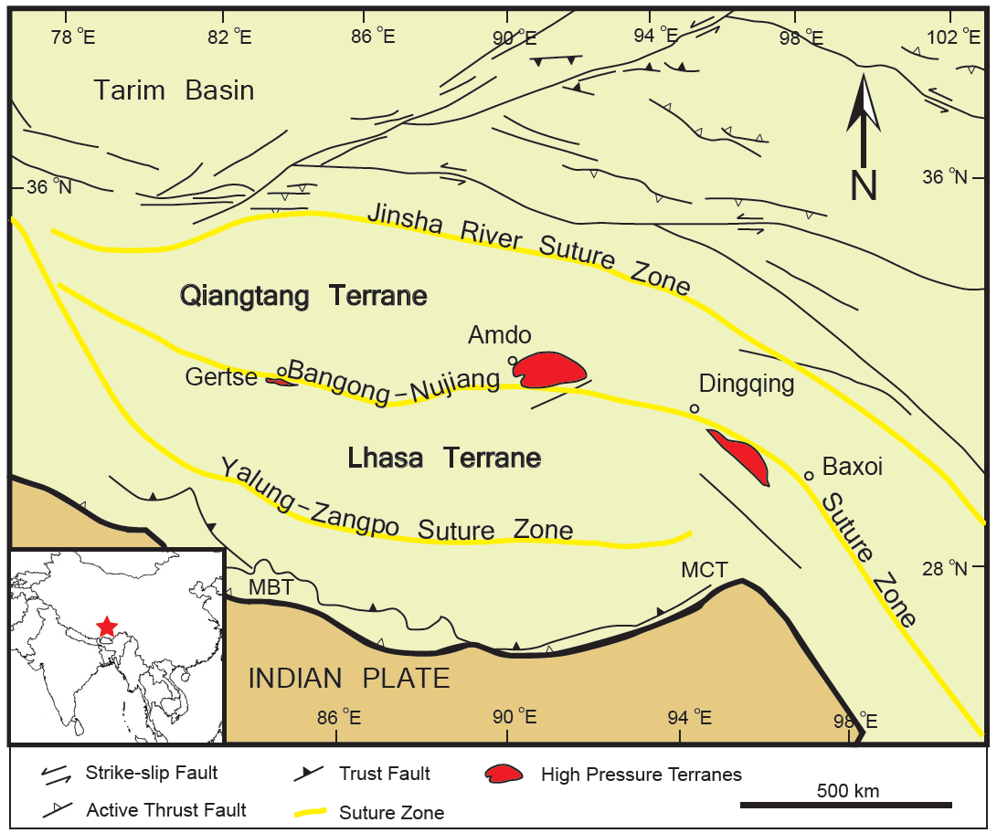 Important high pressure terranes marked along the BNS